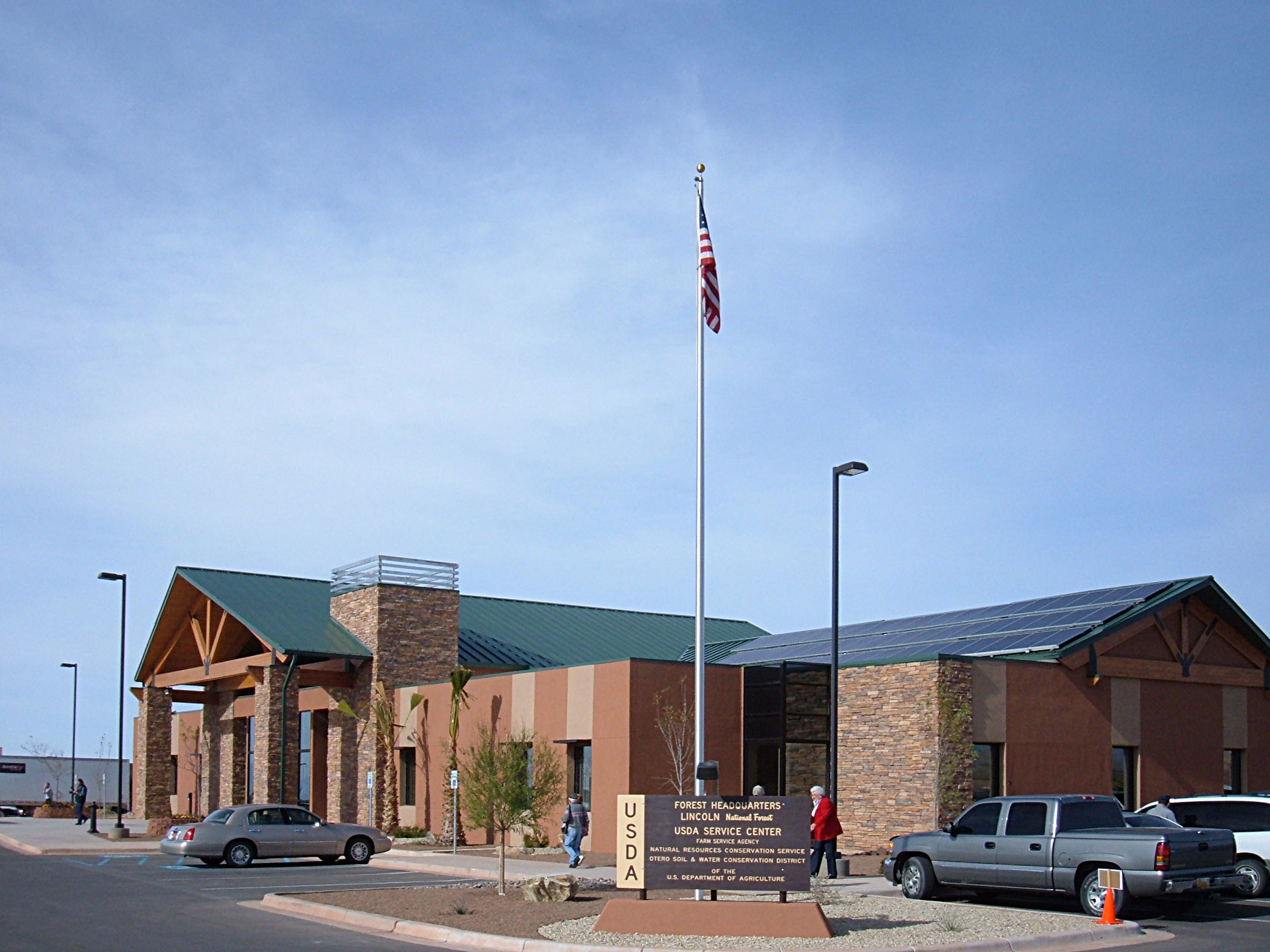 Lincoln National Forest headquarters building, located at 3463 Las Palomas Road in Alamogordo, New Mexico. The building, completed in September 2008, was designed to be especially energy-efficient. The exterior walls are constructed of insulating concrete forms. Note the bank of photovoltaic cells on the roof.